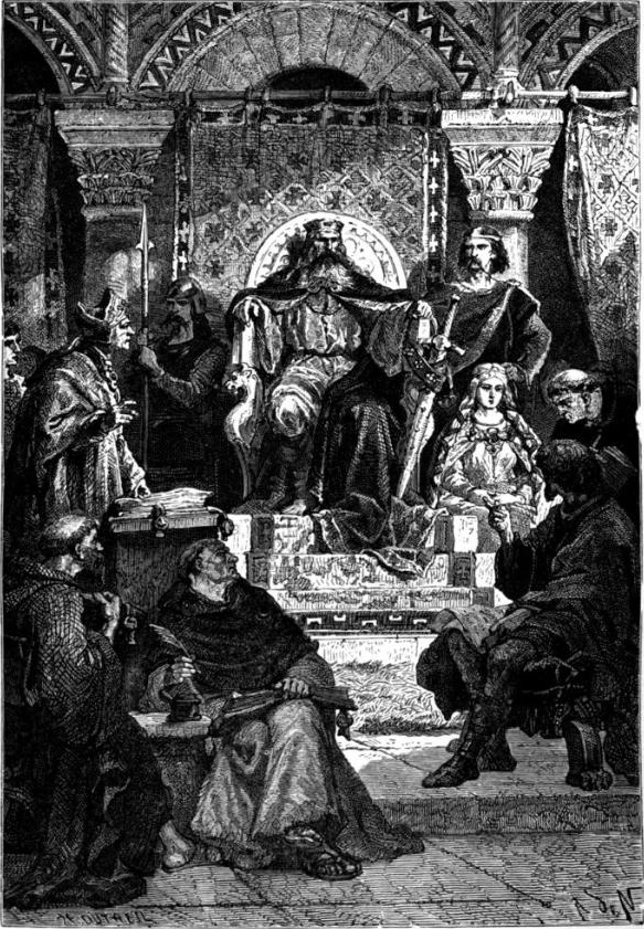 Charlemagne Presiding at the School of the Palace